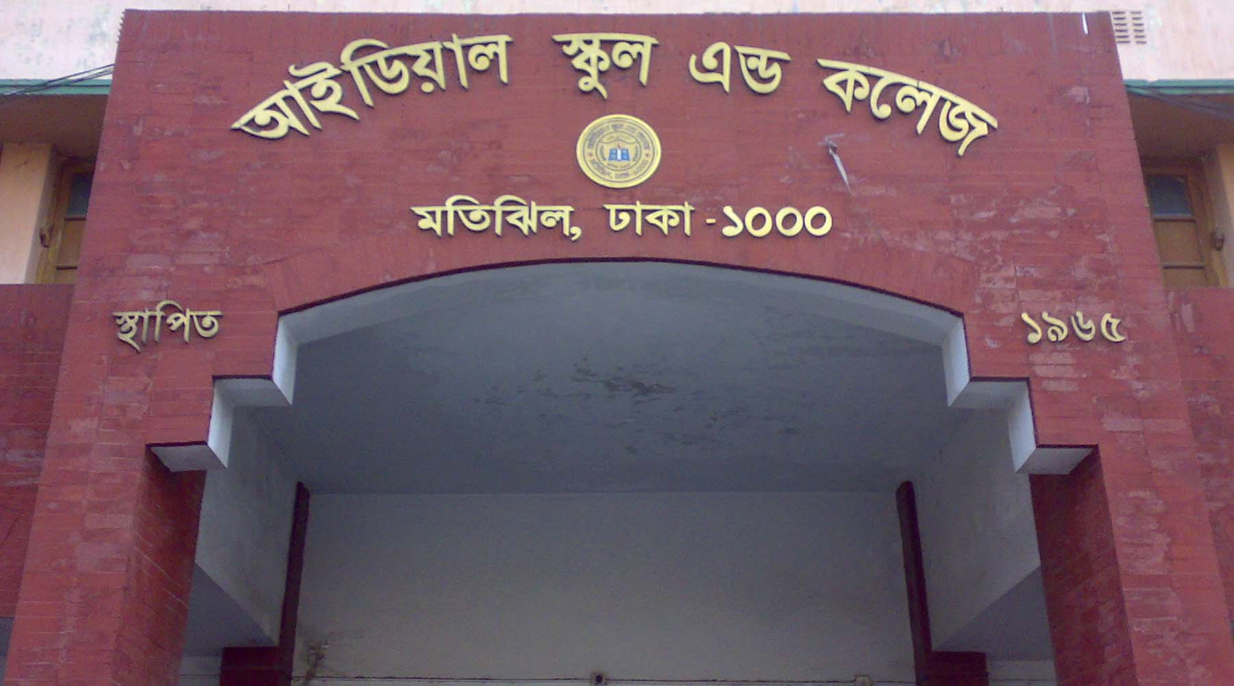 Ideal School & College, Motijheel, Dhaka, Bangladesh.